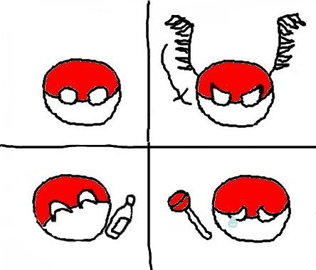 A Polandball cartoon showing Polandball emotions. Typical Polandball.